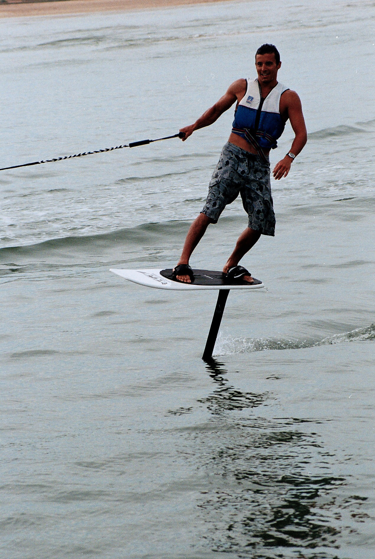 Francisco experiencing Hydrofoil Wakeboarding